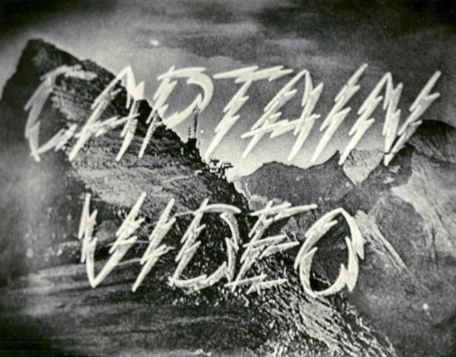 Title card from the television program Captain Video.